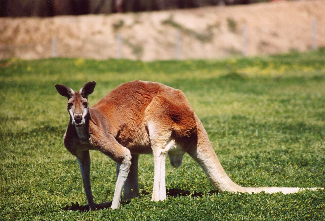 Red Kangaroo, photo taken at Western Plains Zoo, Dubbo, Australia